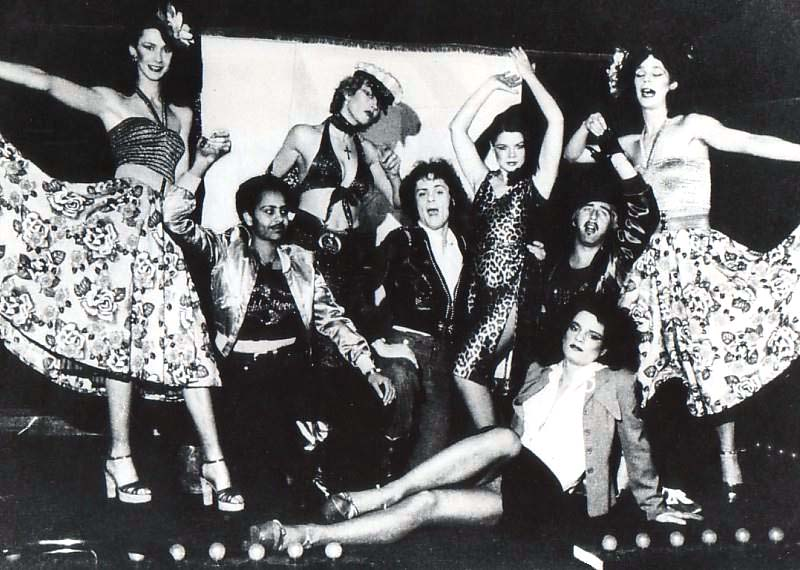 Publicity photo for Wild Side Story, l-r: Christer Lindarw, Azeb Asplund, Ulla Jones, Lars Jacob, Agneta Lindén, Erik Samuelsson, Steve Vigil & Roger Jönsson, as released by image creator Lars Jacob ProdPlace: Alexandra's, Biblioteksgatan 5, Stockholm, Sweden